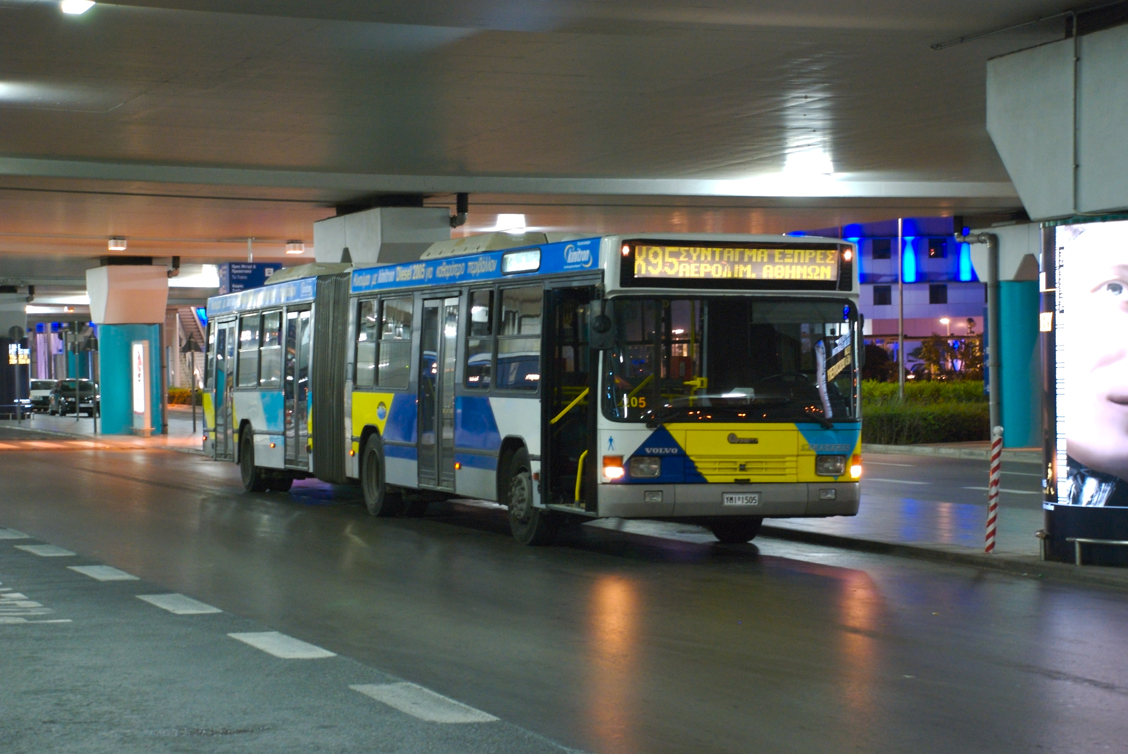 Photograph of a bus for line X95 (Syntagma Express) at Athens International Airport. Taken before sunrise.